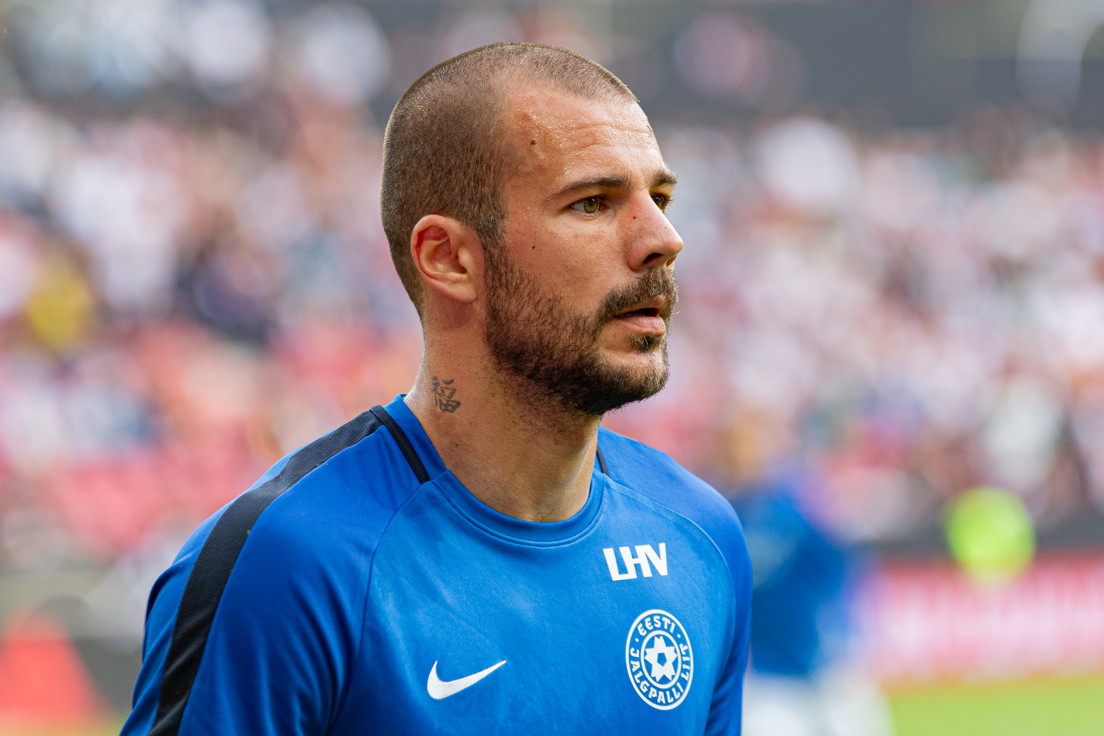 UEFA Euro 2020 qualifier Germany-Estonia